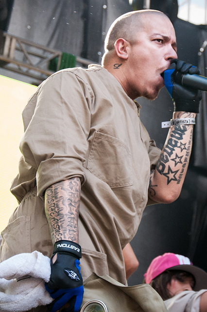 Presentación en Caracas 20.000 Personas